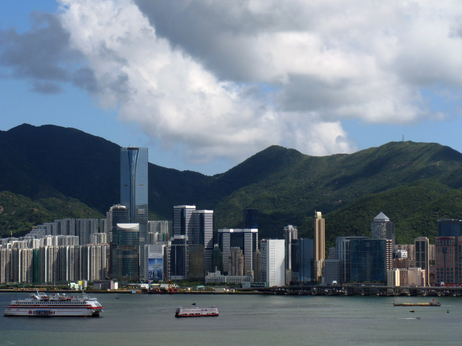 Quarry Bay